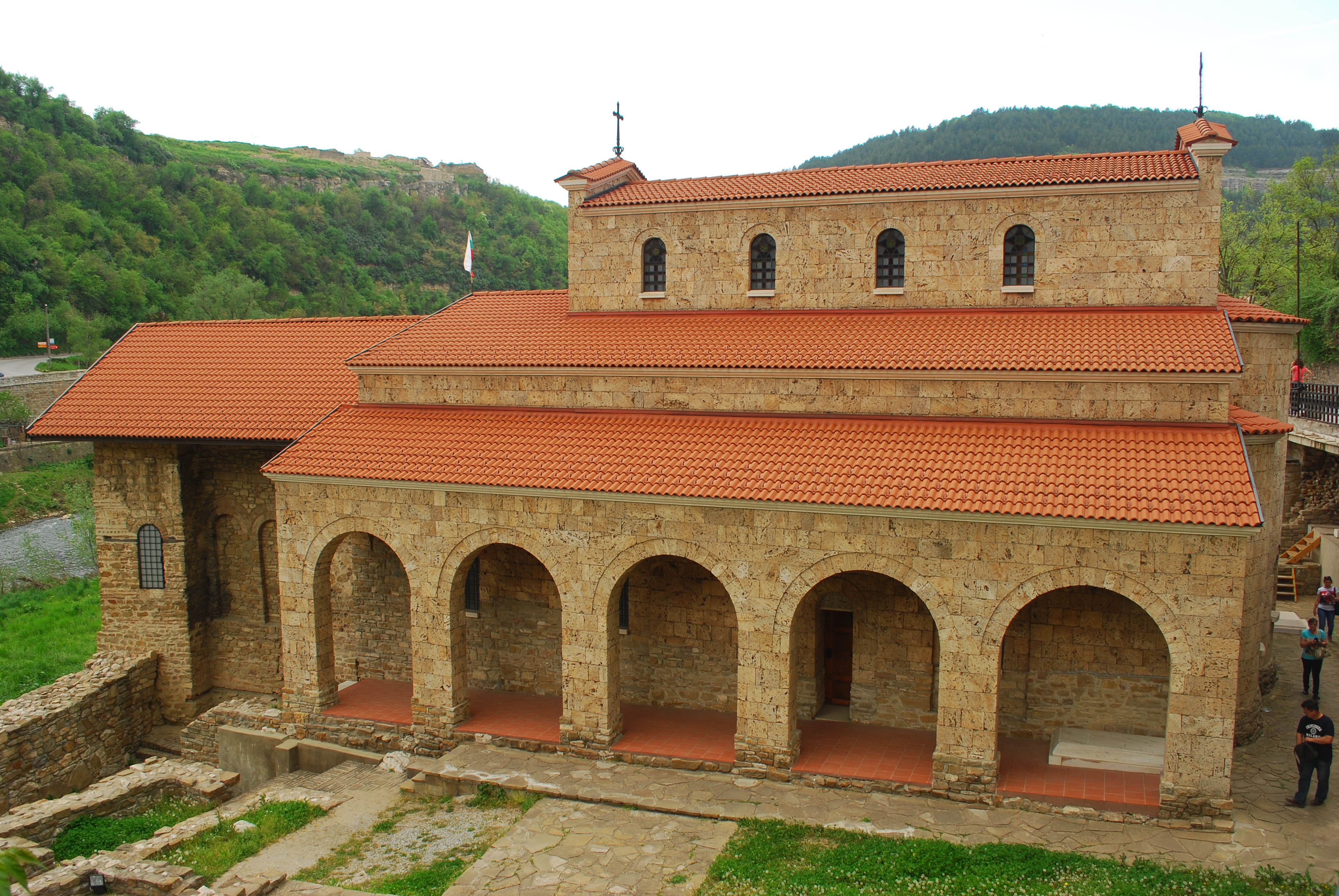 Church of the Holy Forty Martyrs in Veliko Tărnovo, Bulgaria